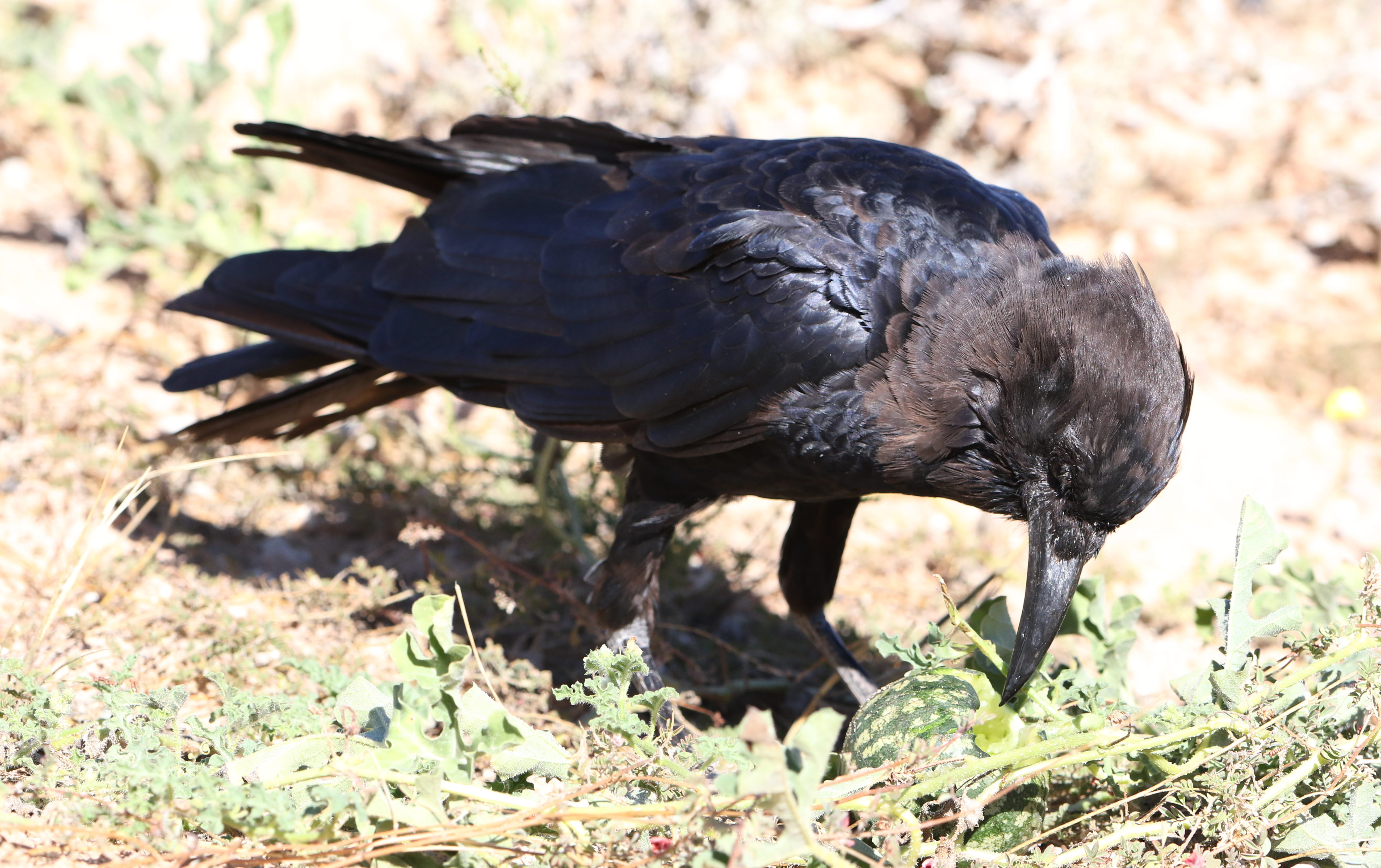 Cape crow, Corvus capensis, at Kgalagadi Transfrontier Park, Northern Cape, South Africa